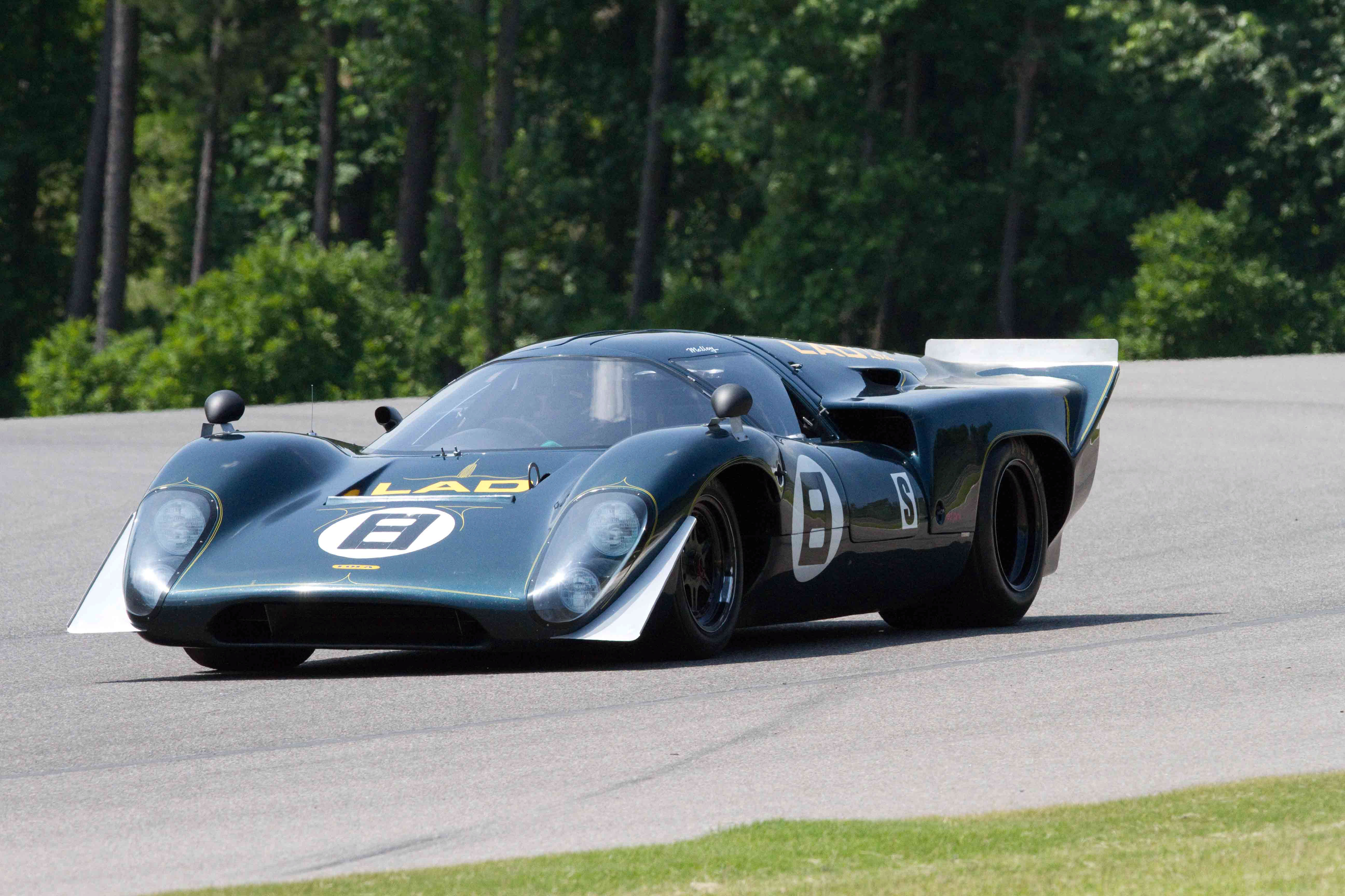 A Lola T70 at the Barber Motorsports Park Legends of Motorsport historic racing event in 2010.